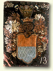 Coat of arms of the swedish noble family Natt och Dag